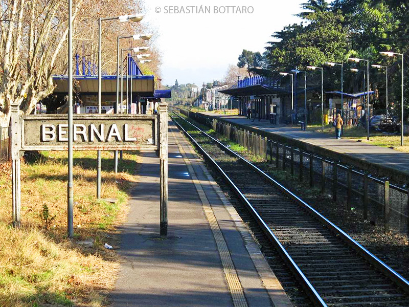 Bernal Train Station